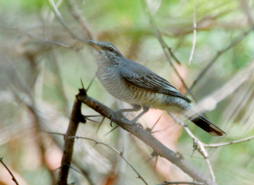 Black-headed Cuckoo-shrike Coracina melanoptera at Mahavir Harina Vanasthali National Park, Hyderabad, India.